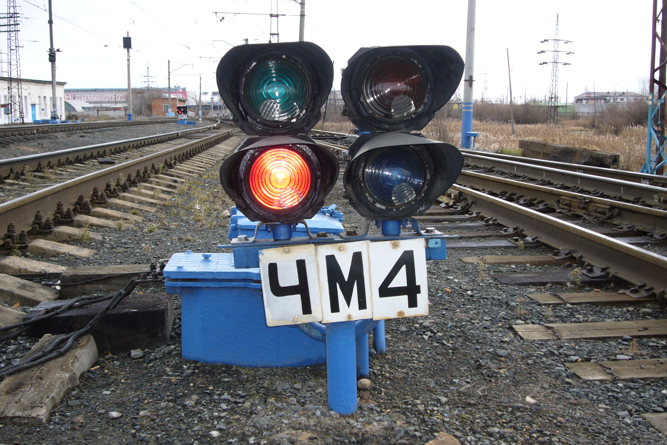 Dwarf railway colorlight signal in Russia. Behind the outer lenses the light-diverging prisms are visible. On the green lens the prism got loose from its fixture.